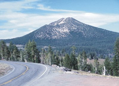 Mount Scott, Crater Lake National Park, as seen from the southwest.